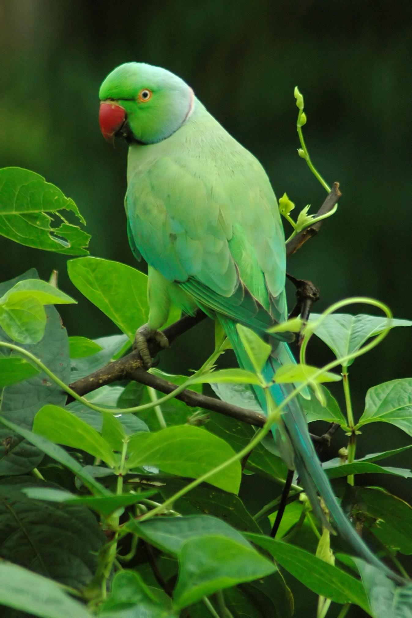 A Rose-ringed Parakeet in Karnataka, India.